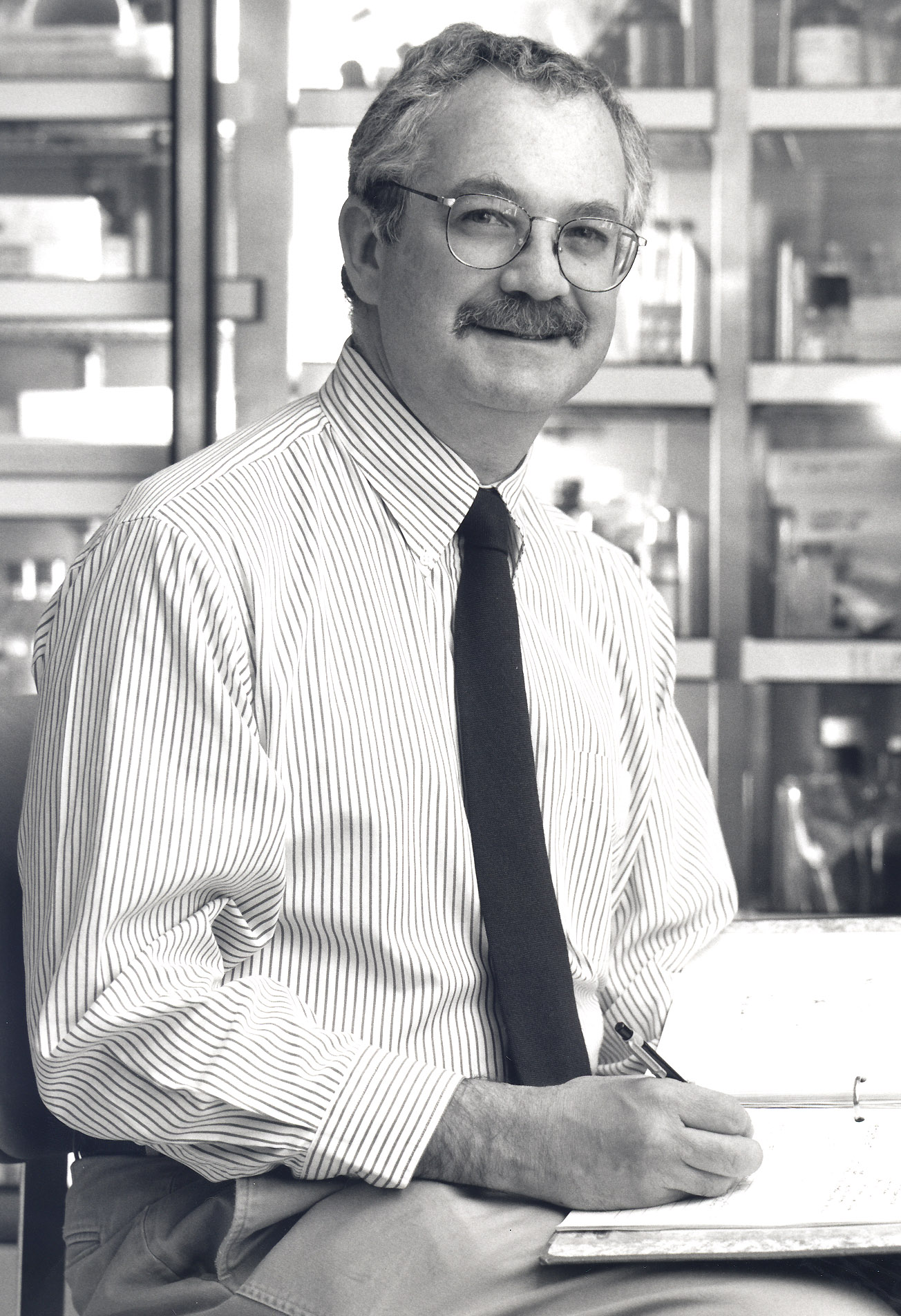 Title Yarchoan, Robert Description Branch Chief, Head, Retroviral Disease Section, HIV and AIDS Malignancy Branch, Center for Cancer Research, National Cancer Institute. Topics/Categories National Cancer Institute, People Type B&W, Photo Source National Cancer Institute